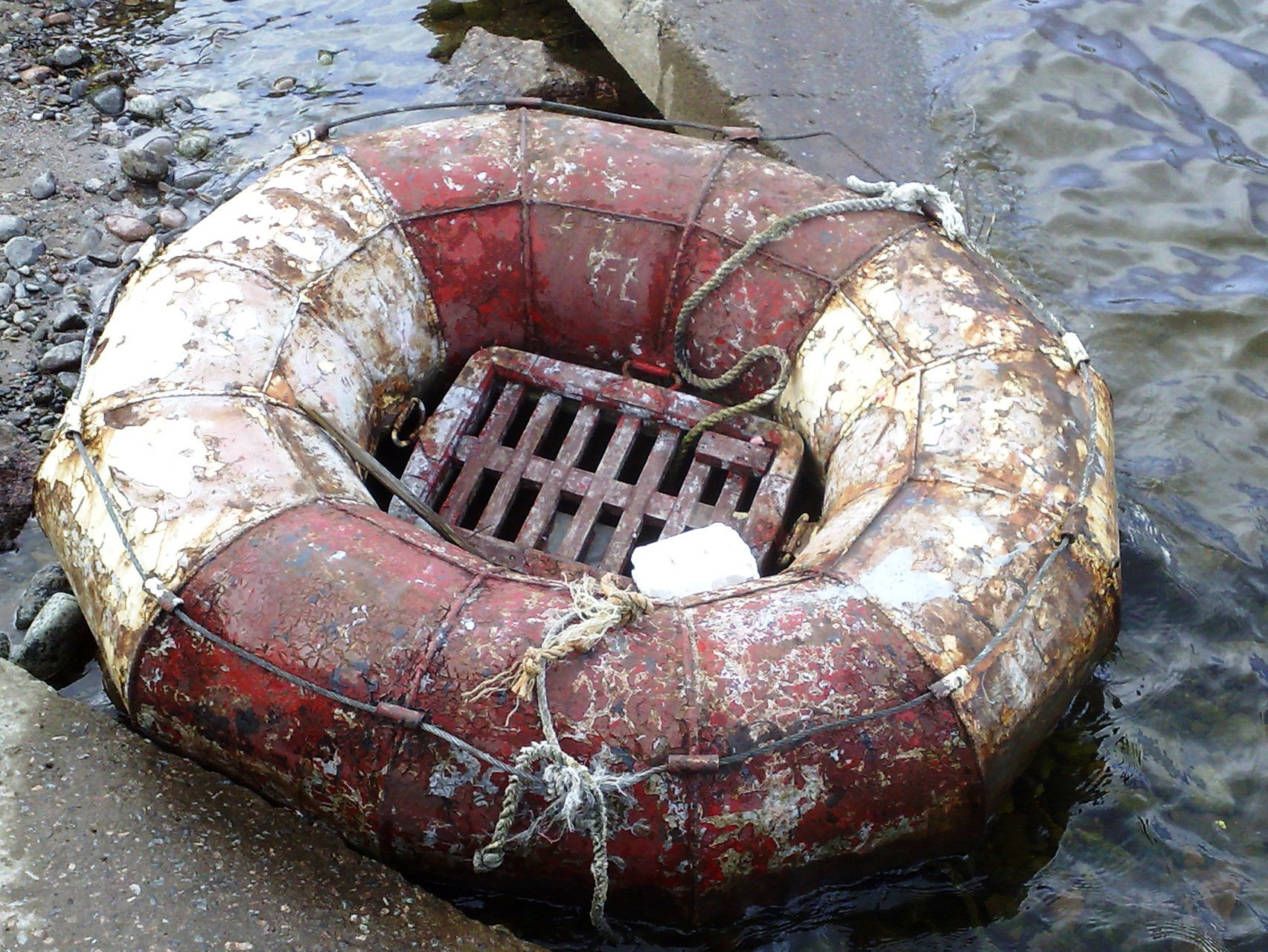 a small russian Carley liferaft on a shore at Sortanlahti, Lake Ladoga